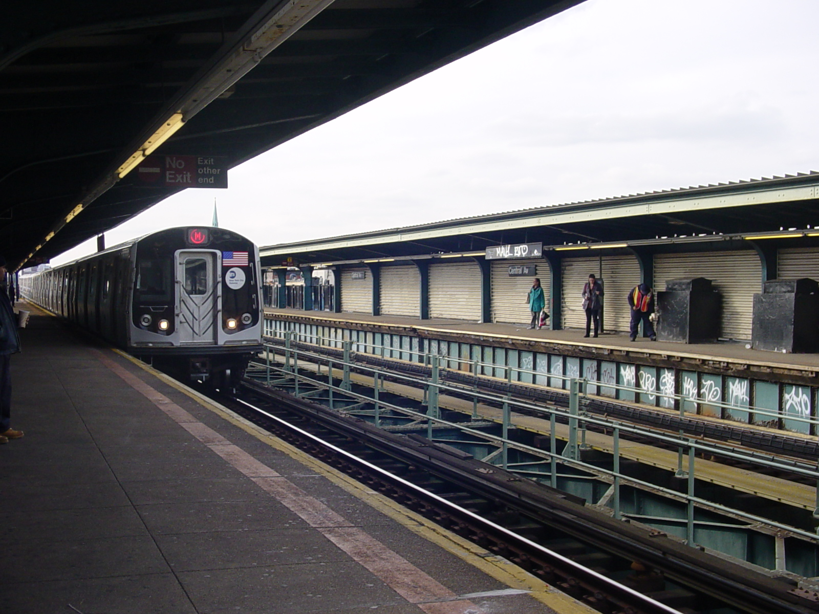 Central Avenue (BMT Myrtle Avenue Line) station platforms with a train approaching—view from northbound (eastbound) platform looking to the left.